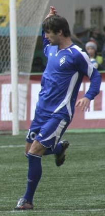 Davit Mujiri in action for FC Krylya Sovetov